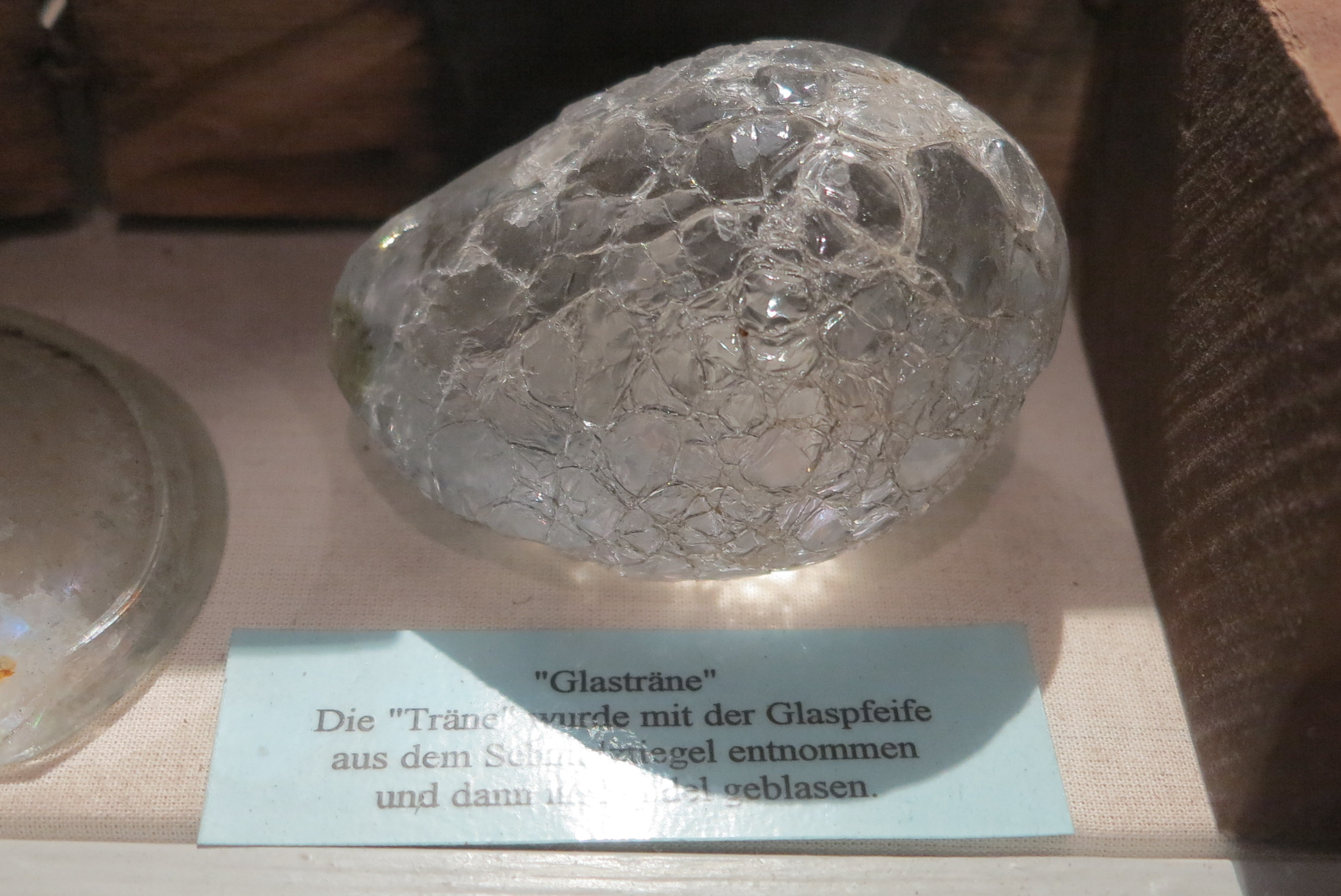 Glass tear, presumably from the village glassblower Tscherniheim, a place of Forest glass production from 1621 to 1879 in the municipality Hermagor-Pressegger See in Carinthia / Austria / EU. Exhibits at the Museum of Folk Culture in Spittal an der Drau.